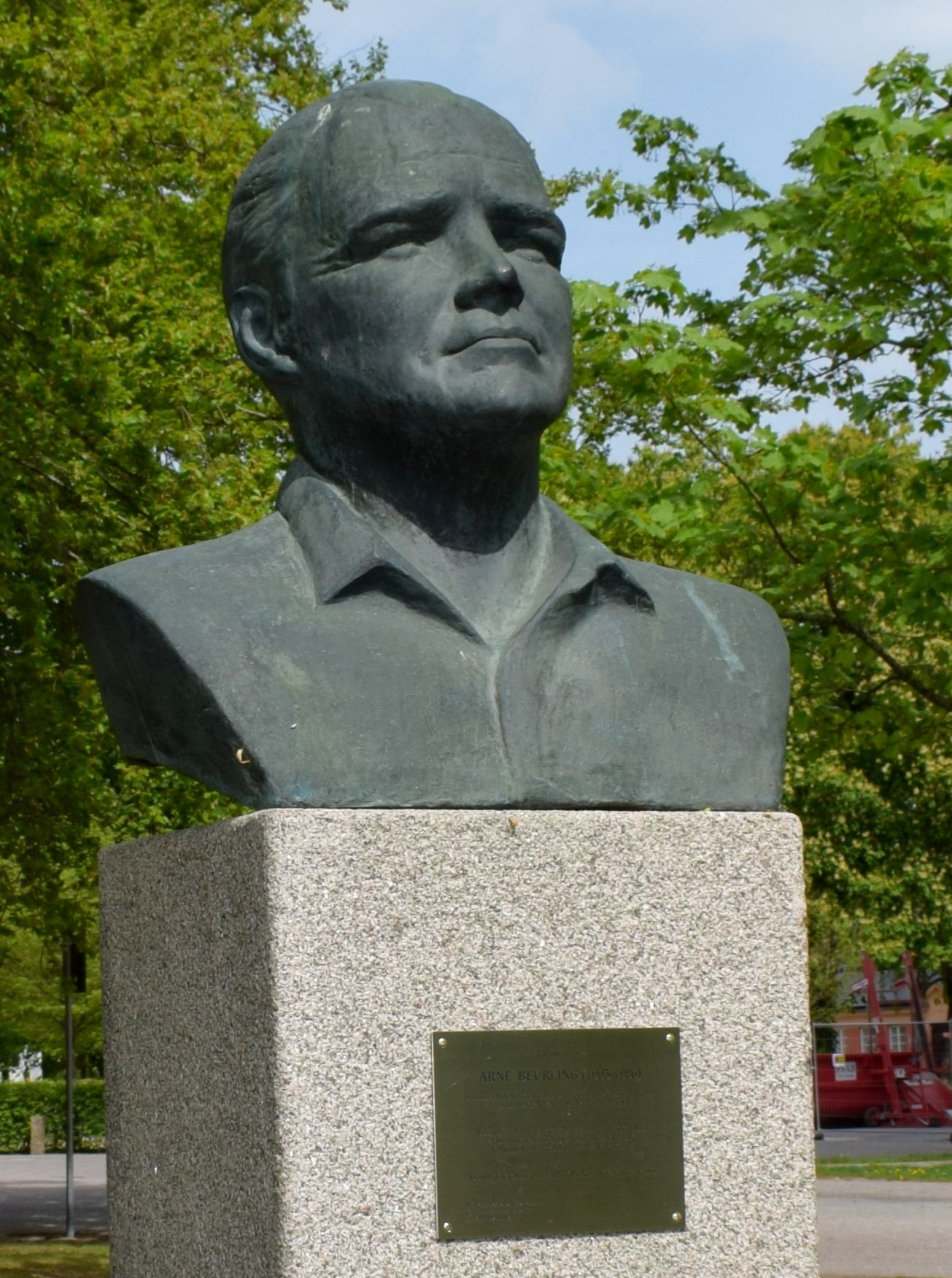 Arne Beurling